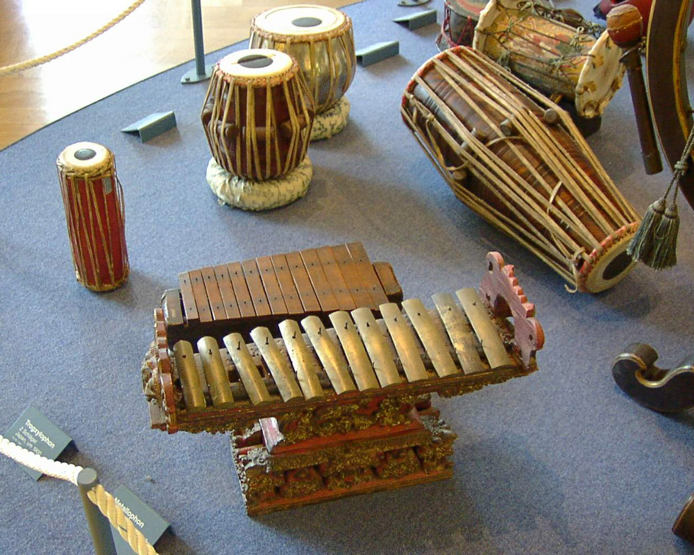 Some ethnic percussion instruments